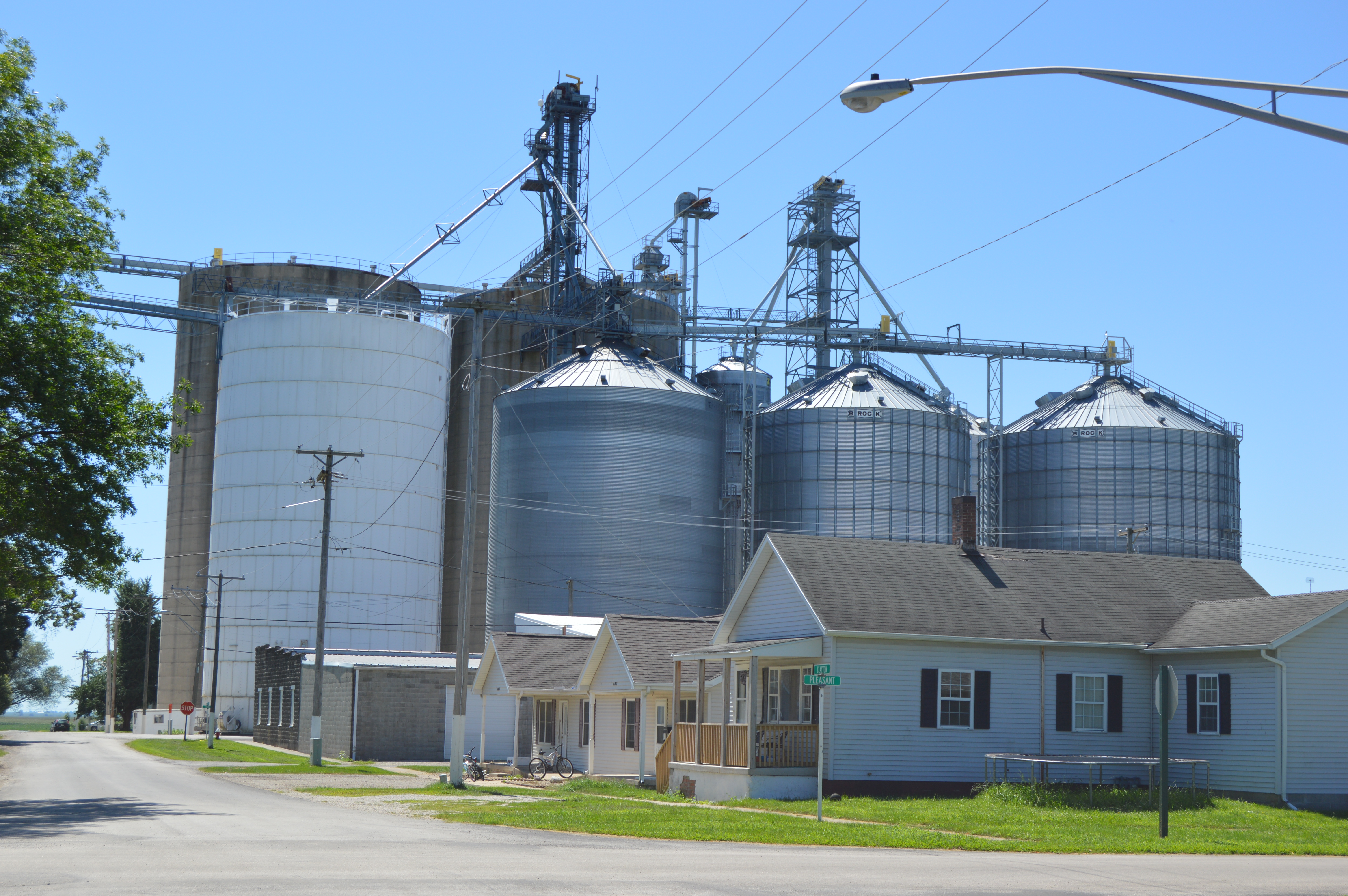 Looking southeast on Clayton Street from the Pleasant Street intersection in Benson, Illinois, United States. At the center of the picture (40) is the site of the former Benson Water Tower, which was built in 1891; although listed on the National Register of Historic Places in 1987, it has been destroyed.